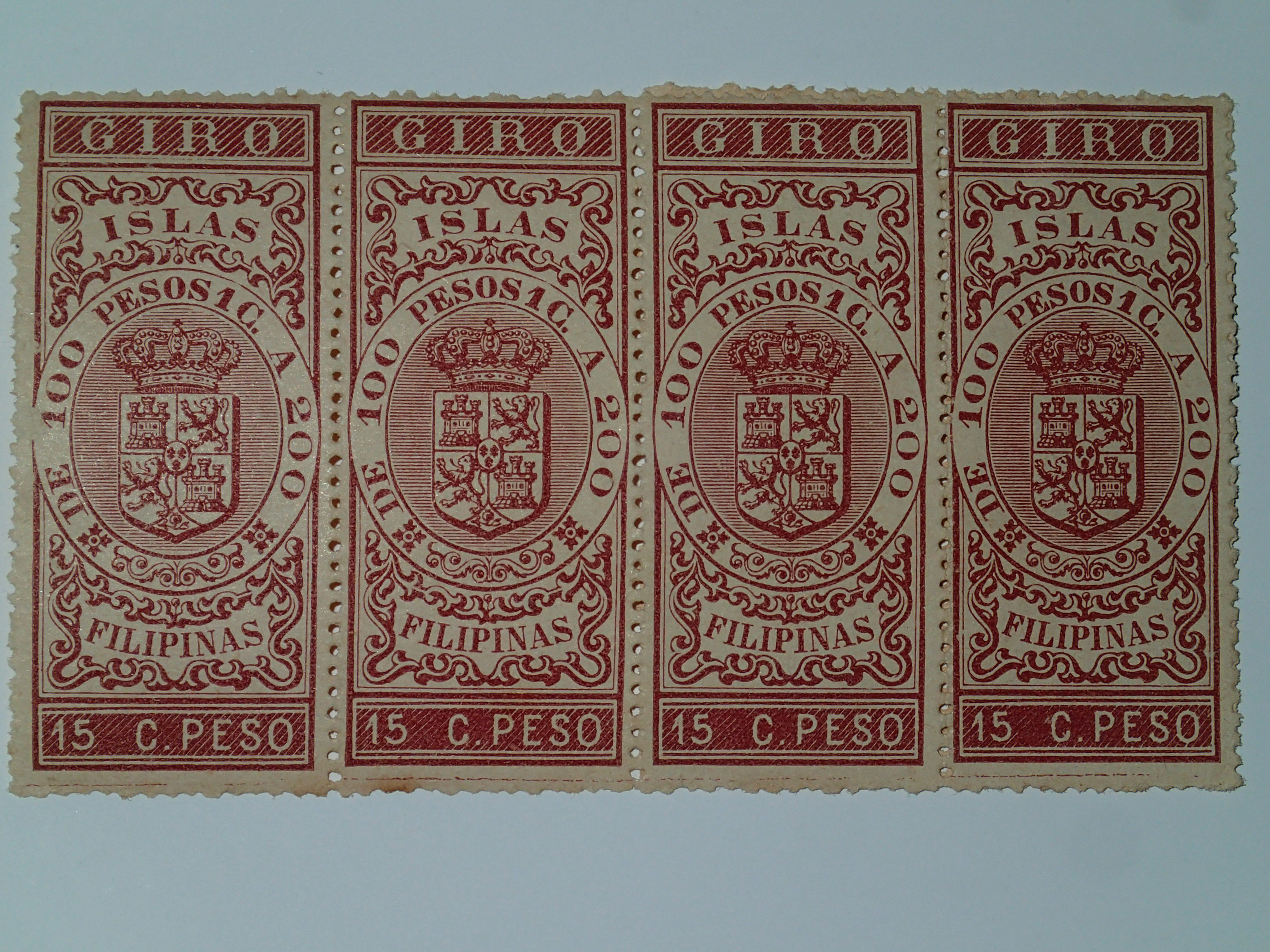 Spanish Philippines 15 centimos GIRO revenue stamps. Issued 1897, Warren #W-229 [1]